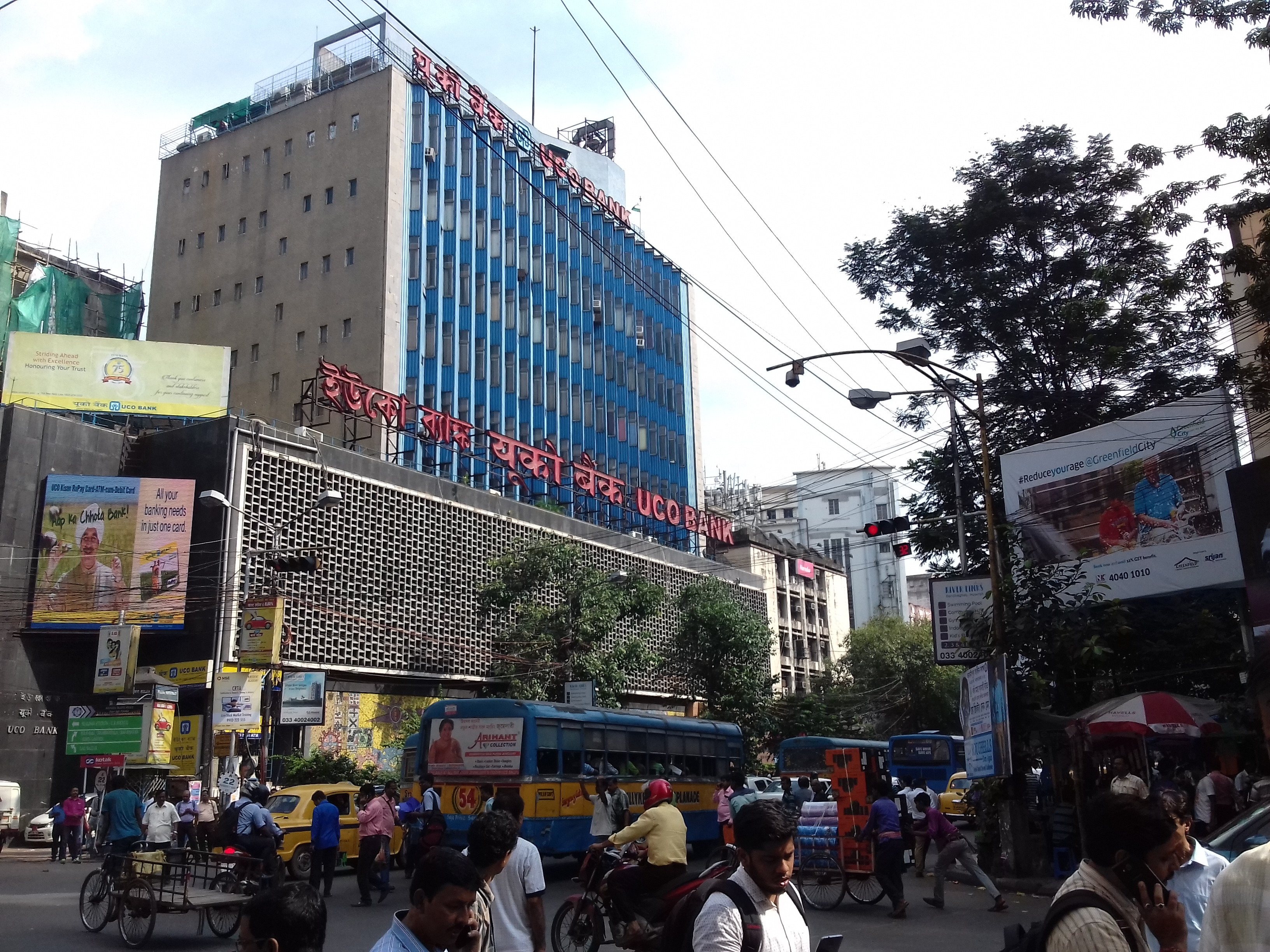 UCO Bank, formerly United Commercial Bank, established in 1943 in Kolkata, is a major government-owned commercial bank of India.